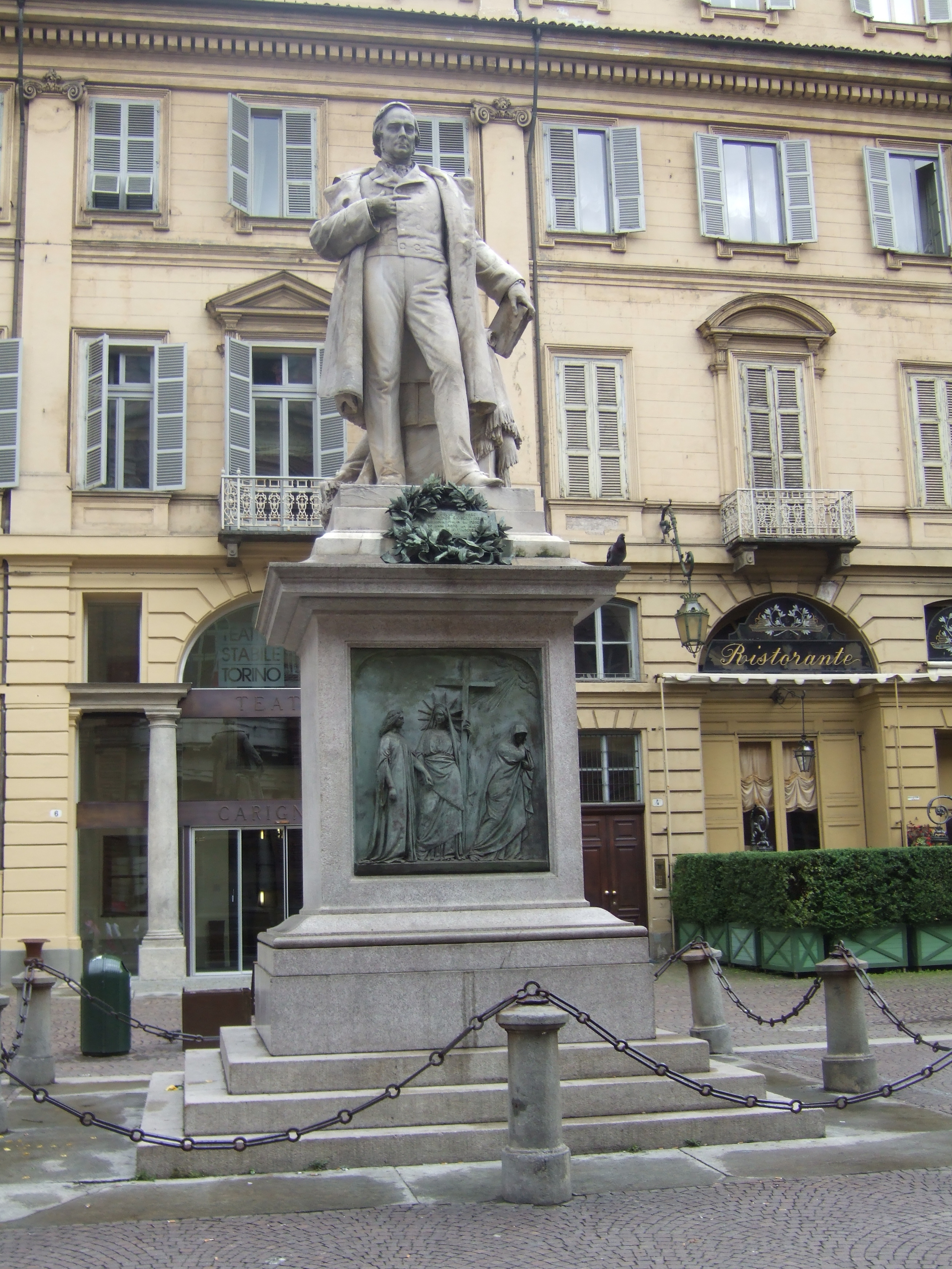 Gioberti Monument in Turin, piazza Carignano